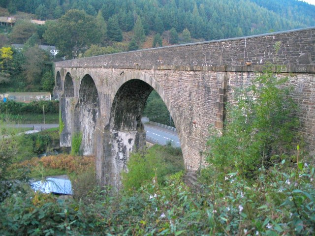 Bridge at Pontrhydyfen. This old narrow bridge, today part of a pedestrian and cyclist trail, is a former aqueduct completed in 1825 to bring water to power the waterwheels of the Cwmavon ironworks. The road crosses the River Afan lower down on the valley floor. This is the eastern of two high-level bridges at the village: the other being a former railway viaduct.